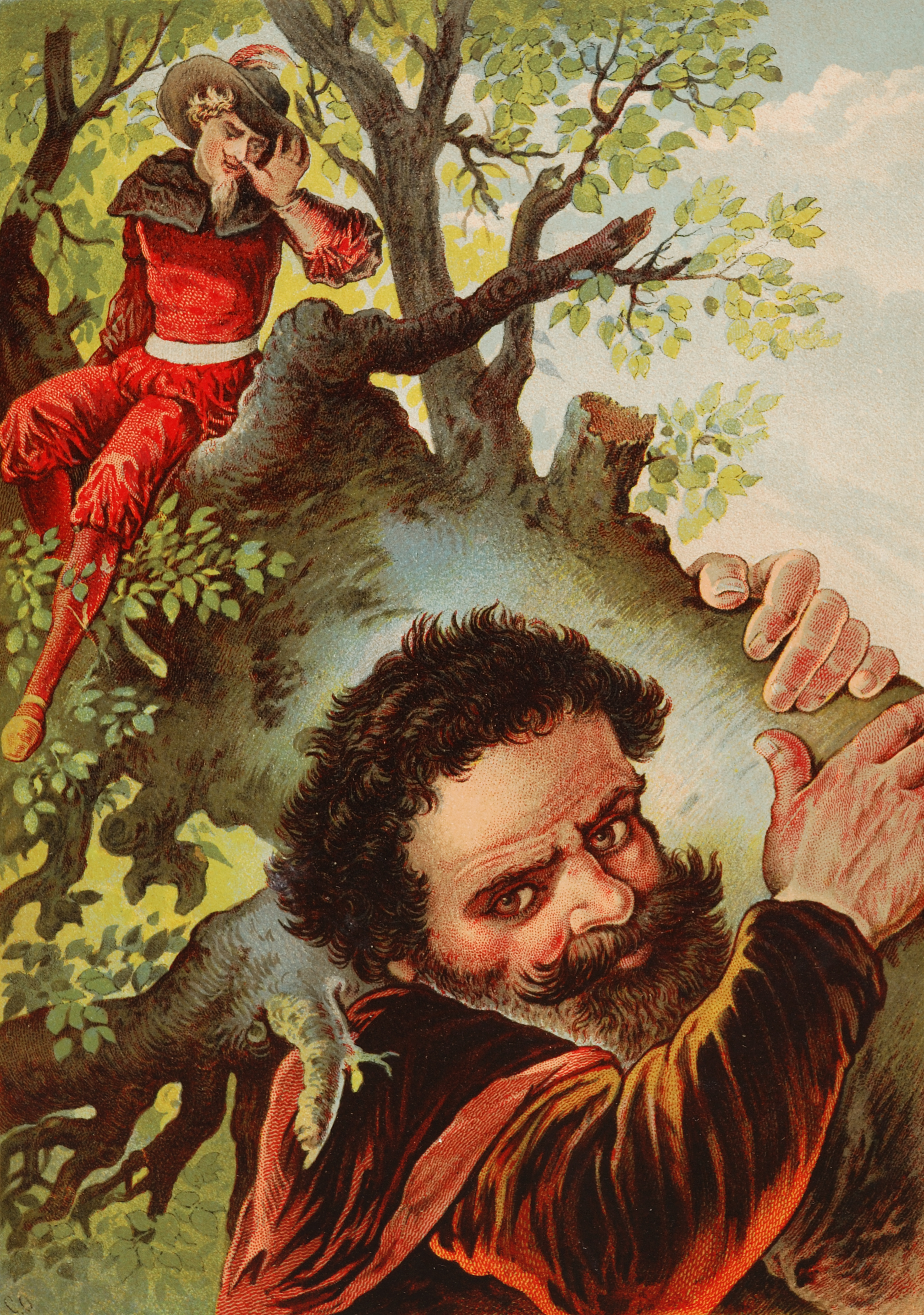 The Valiant Little Tailor, illustration by Carl Offterdinger